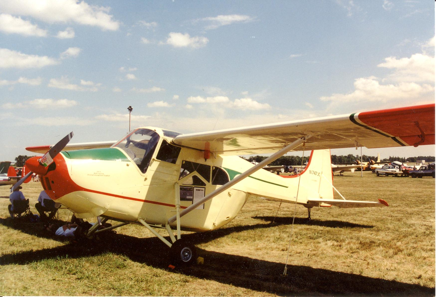 Edgar Percival E.P.9 (N747JC) at EAA Fly-In taken 24 July 2007, Oshkosh, WI, USA. KOSH